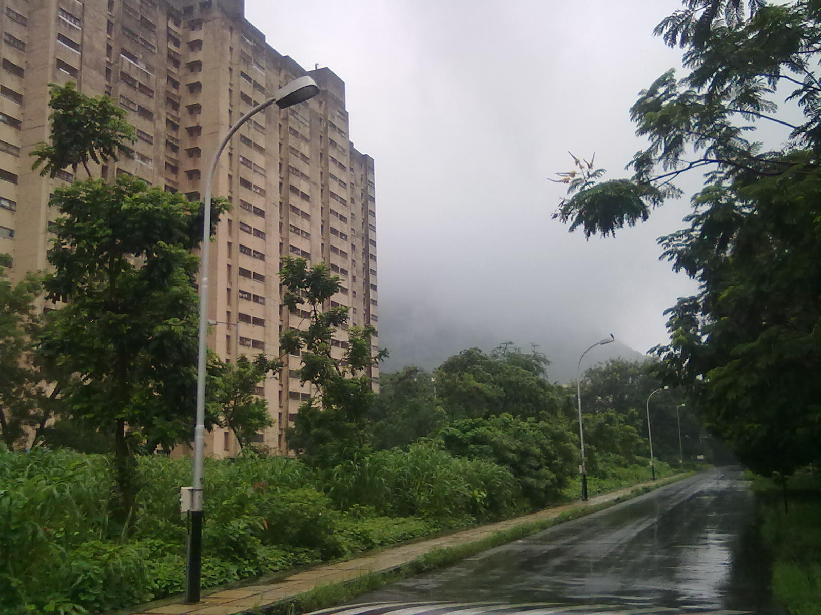 Nilgiri